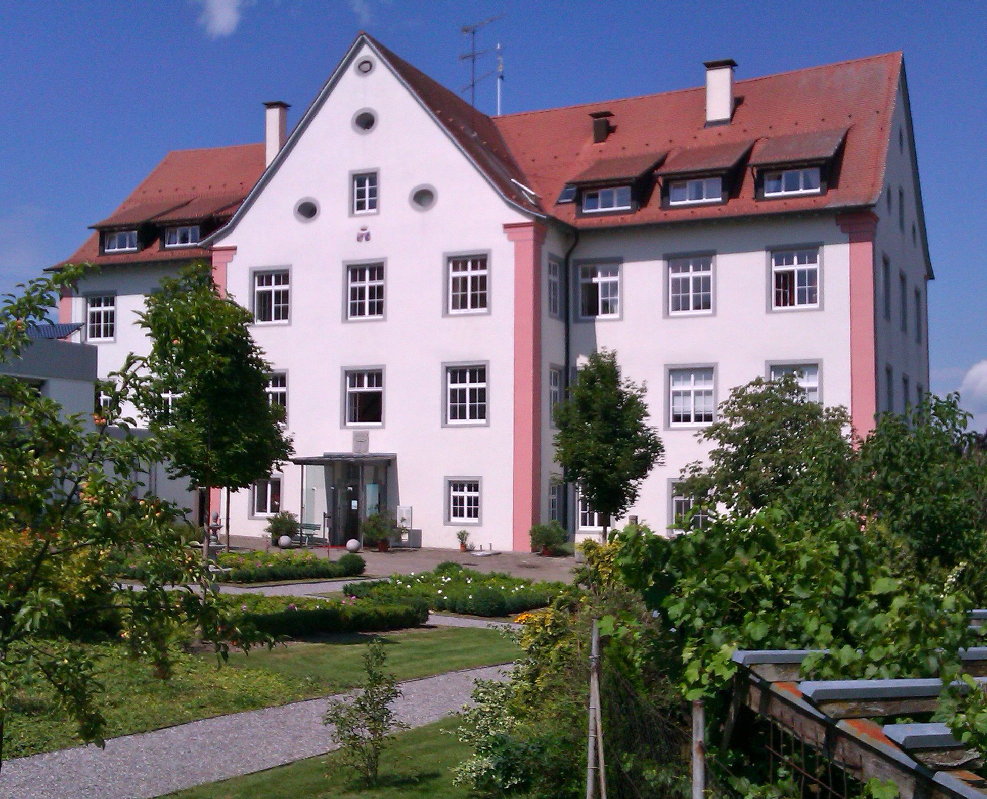 Weiterdingen Castle, Municipality of Hilzingen